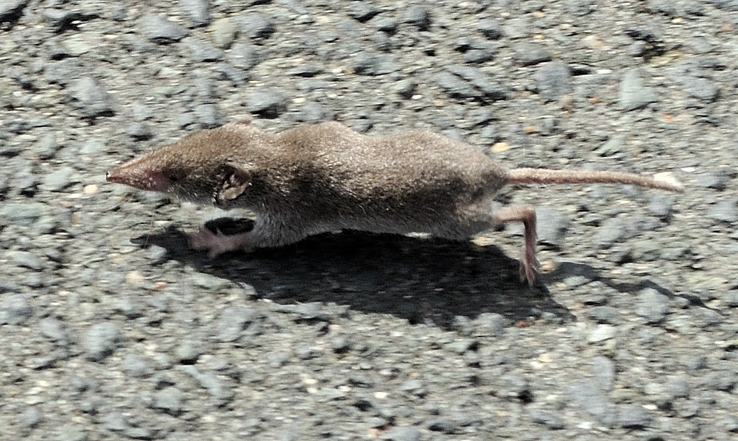 Picture taken for Wikipedia:Wiki Loves Monuments Mittelhessen.